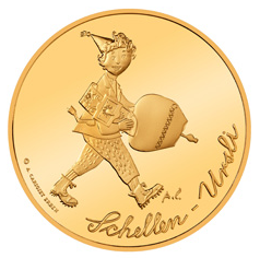 Swiss Commemorative Coin 2011 CHF 50 obverse